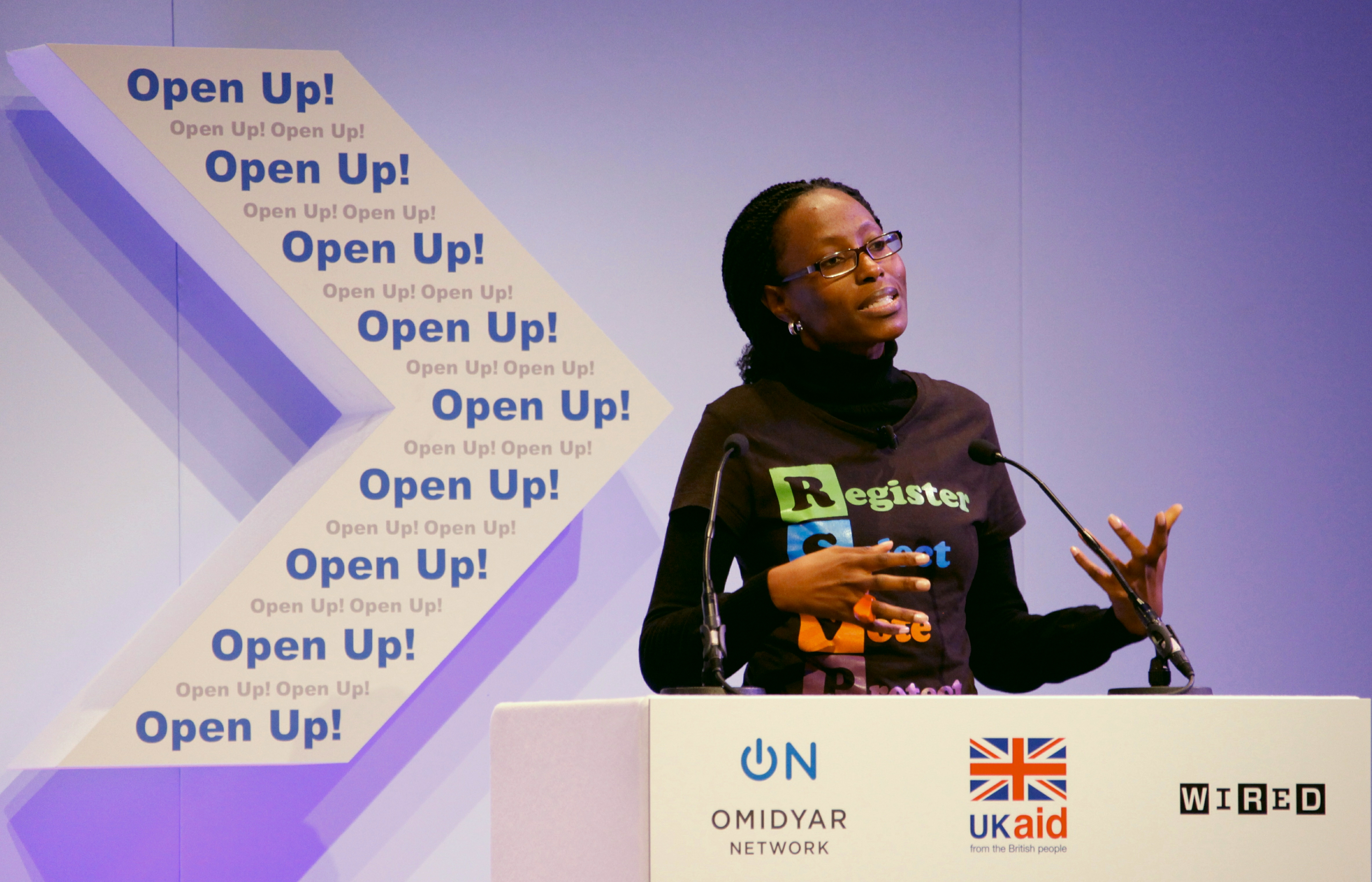 Terms of use This image is posted under a Creative Commons - Attribution Licence, in accordance with the Open Government Licence. You are free to embed, download or otherwise re-use it, as long as you credit the source as 'Russell Watkins/DFID'.